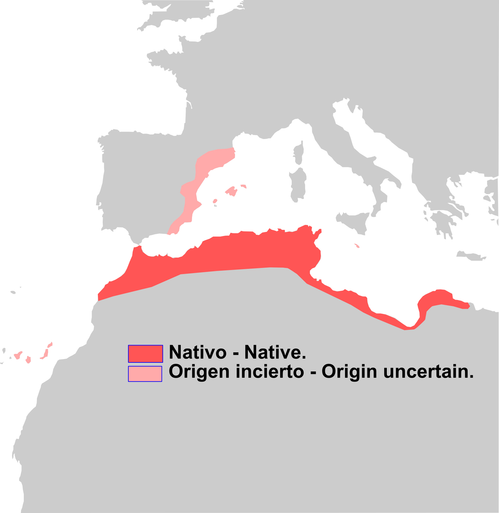 Atelerix algirus range map.